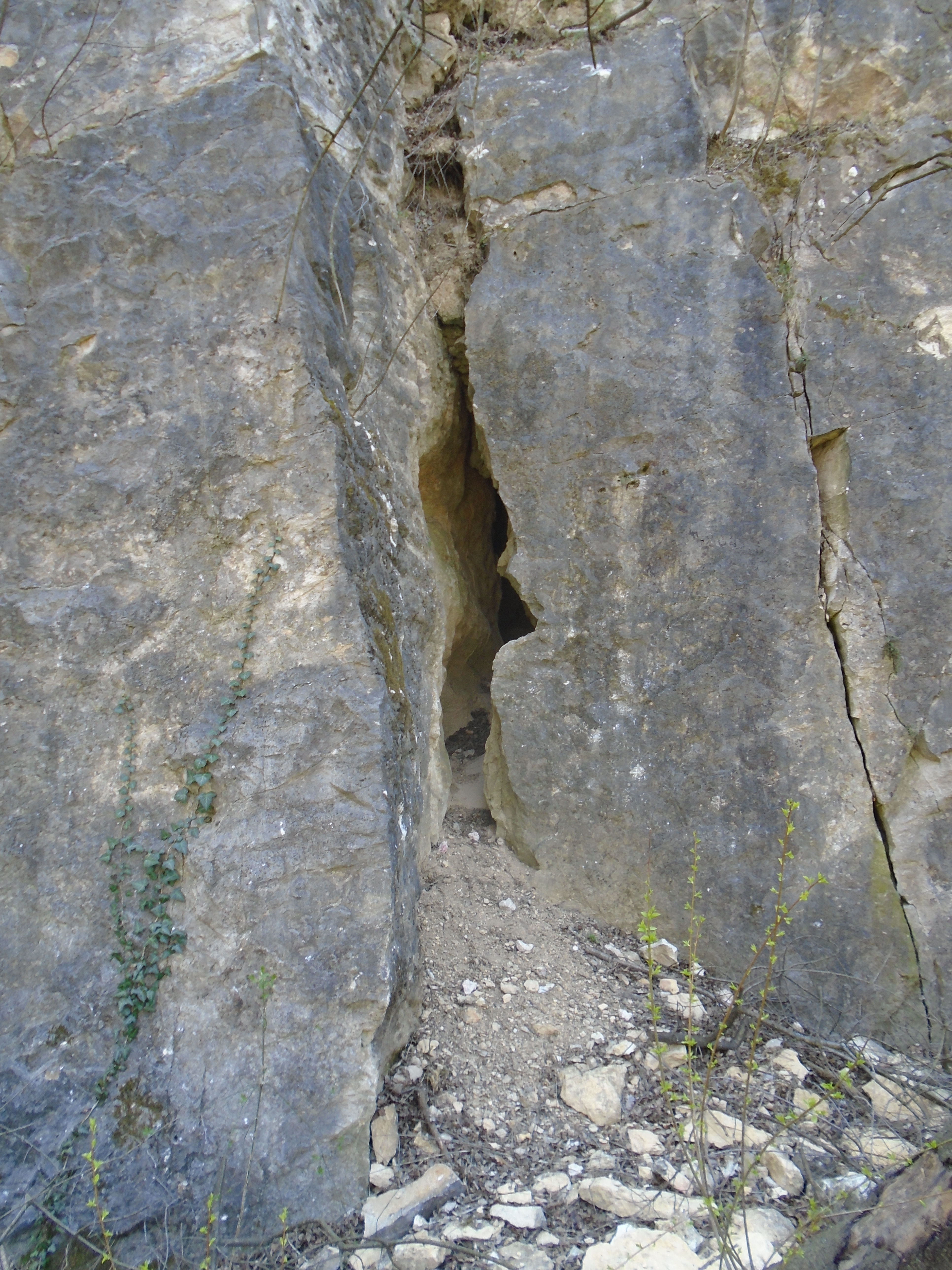 Lower entrance of the Pál-völgyi Fissure.